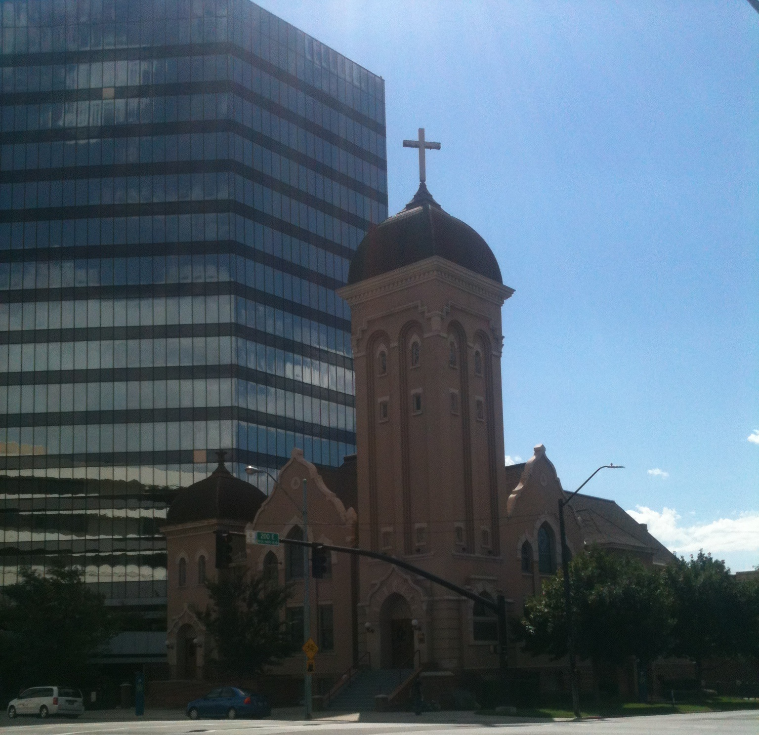 Historical church at 200 S. 200 E. in Salt Lake City